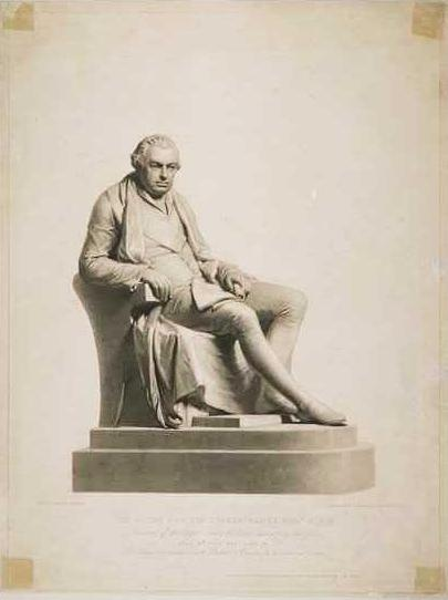 This is an image of a 47.6 x 35.4 cm mezzotine print from an engraving of a drawing of a statue of Sir Joseph Banks. The statue was built in his memory after his death, and a copy of this print was provided to each subscriber to the statue.